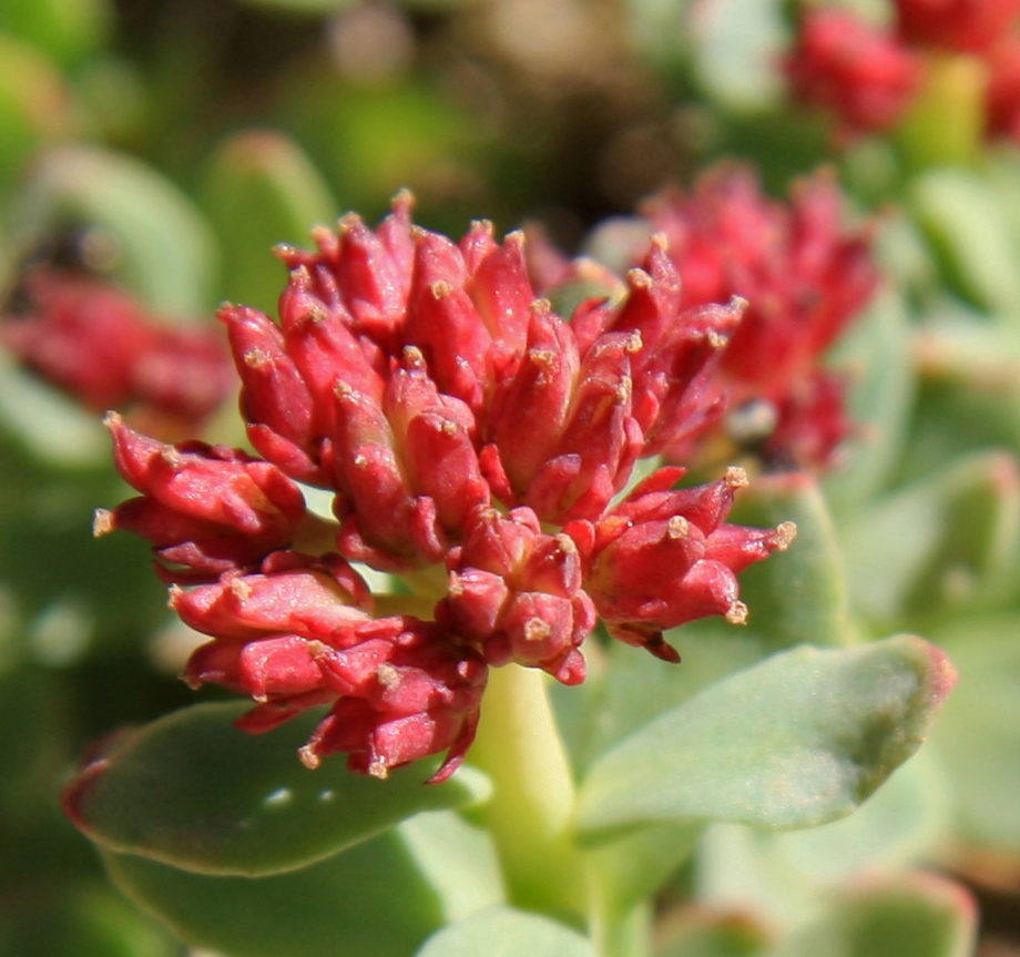 Rosy sedum (Sedum rosea) flowerhead, close. At about 10,000ft near Frog Lake in Virginia Lakes Basin, Hoover Wilderness, Sierra Nevada mountains, California USA.